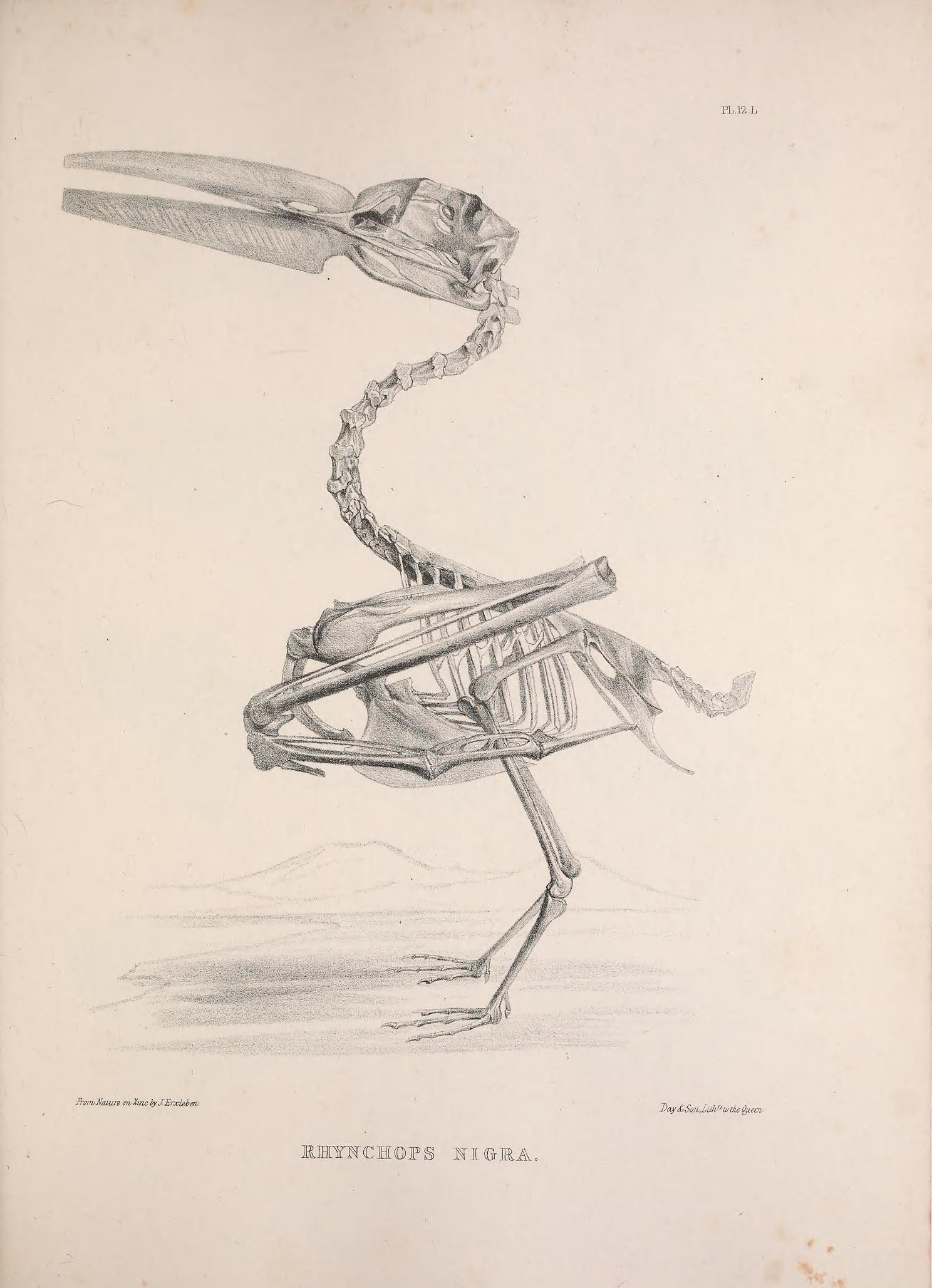 frvm/AaUuv mXinc iyJ.Erxlebav Day&Si.rL£iik»te the Ojut OTOTCHOPS MGMA.